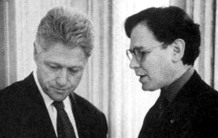 Image from my visit to the White House Archives - Bill Clinton and Sidney Blumenthal in the White House Oval Office 1998. The image is credited to Sharon Farmer, one of the official White House photographers. It is the work of an employee of the U.S. Federal Government. See Copyright status of work by the U.S. government. Original photo was copied/scanned by uploader.